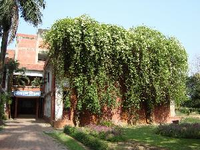 Side view of Department of Chemistry, Jahangirnagar University